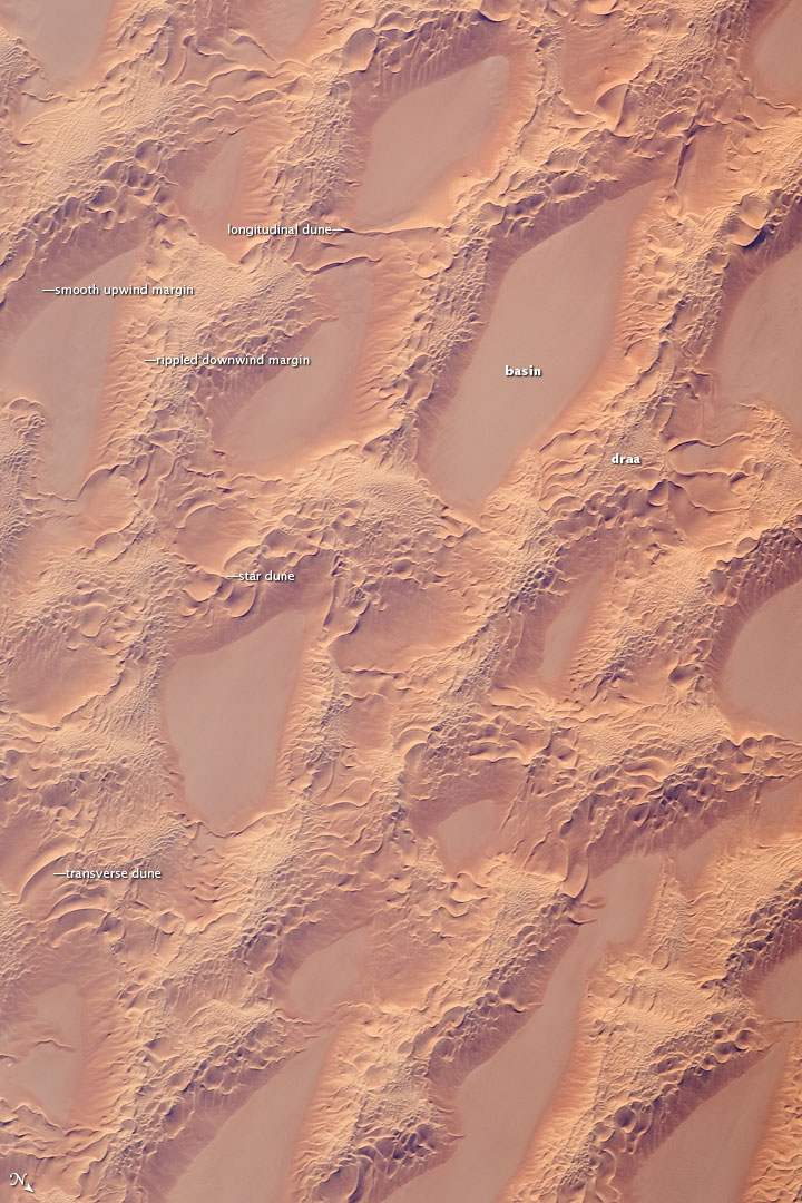 Sand Dunes, the Murzuq Desert Sand Sea, in the Fezzan region of southwestern Libya. Astronaut photography of the Earth from the International Space Station.